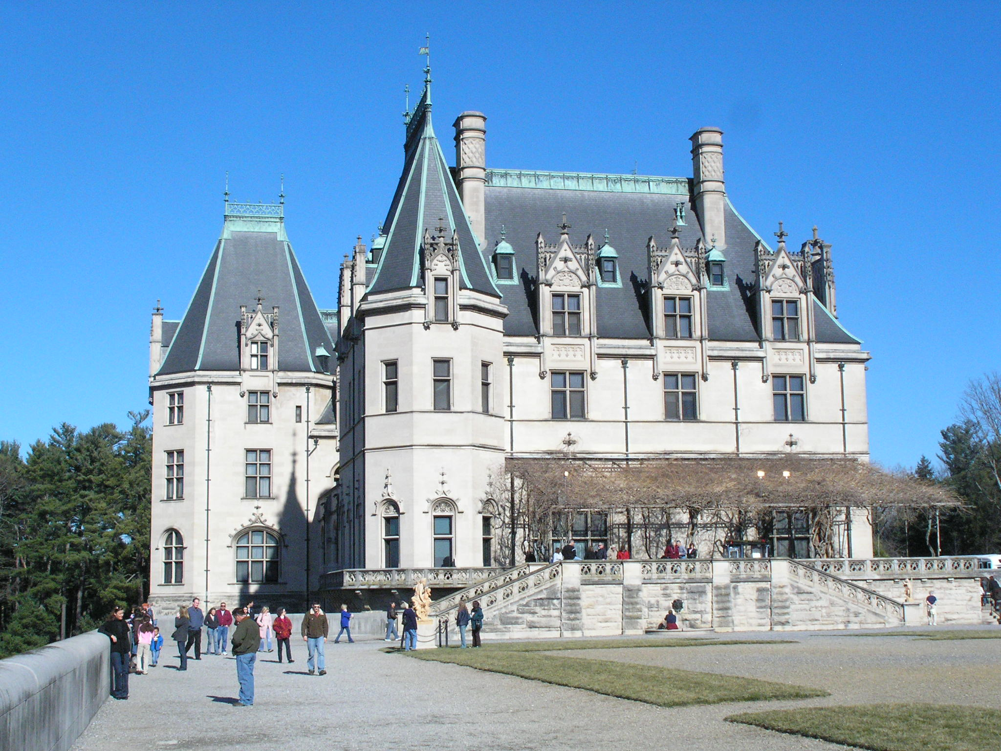 Biltmore House (south facade), with the Biltmore gardens Library Terrace (pergola level) and South Terrace. At the Biltmore Estate, Asheville, North Carolina.